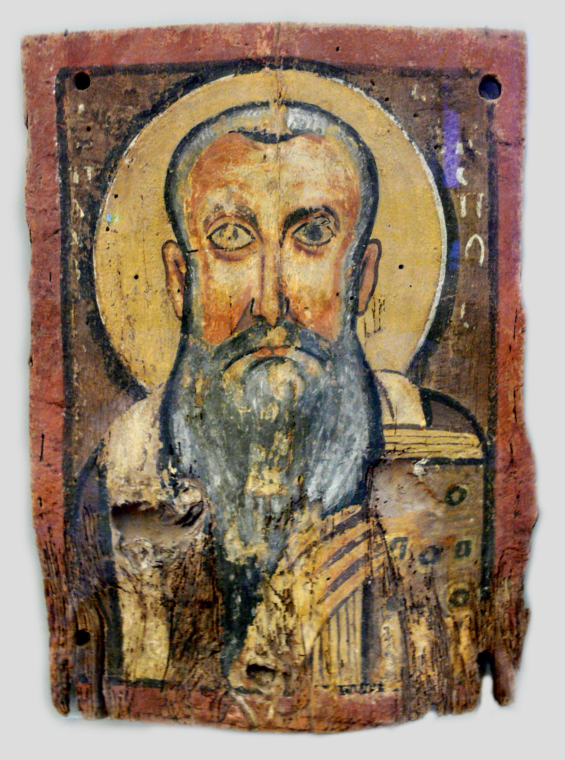 Apa Abraham (probably bishop Abraham of Armant/Hermonthis), Egypt. (acquired in 1905)